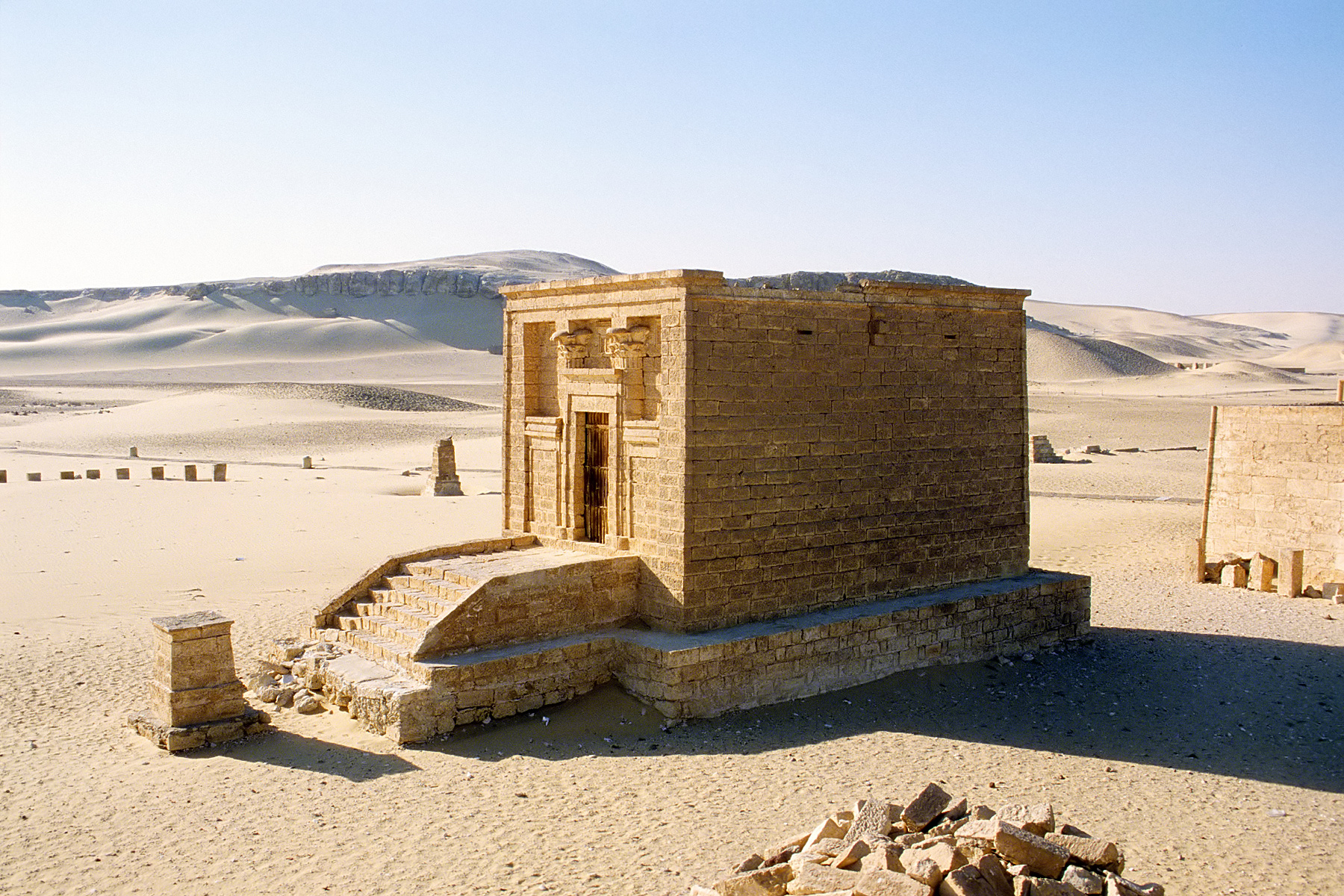 Tomb of Ptolemaios (south and east sides), Tuna el-Gebel, Egypt